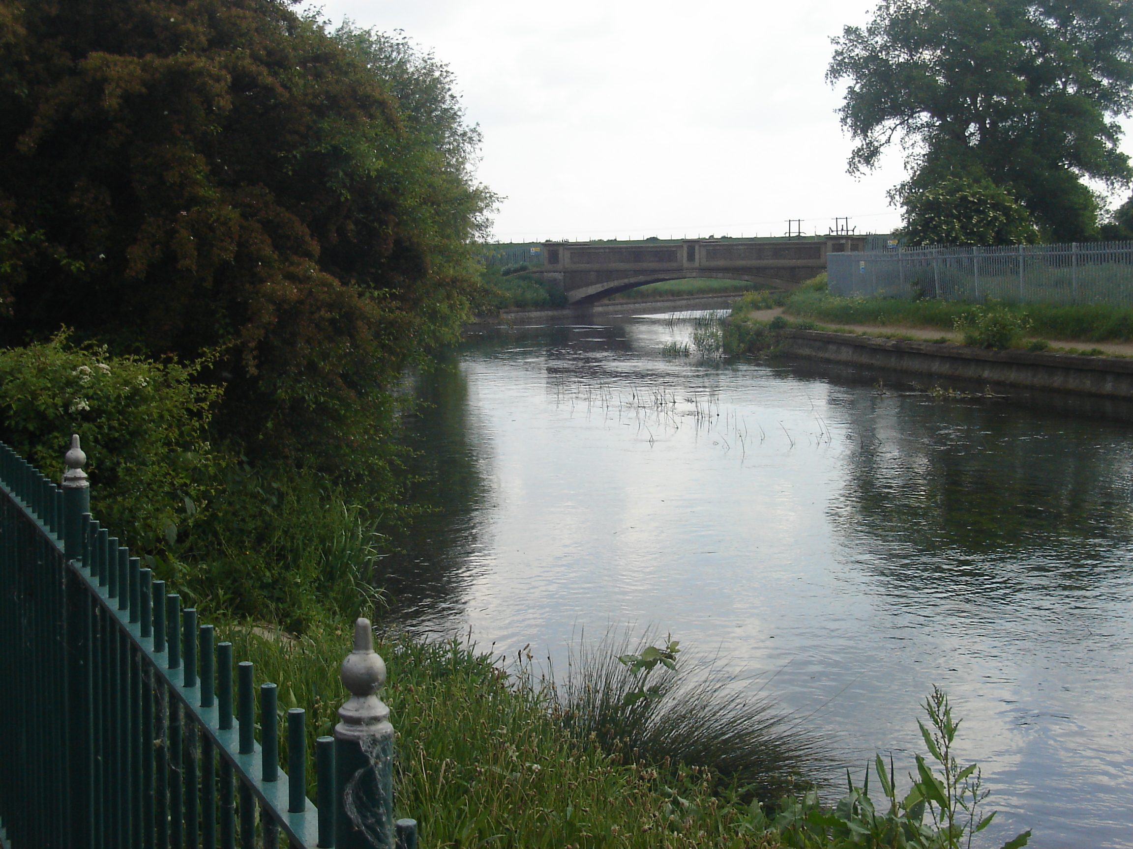 Picture of the River Lea at Enfield Lock close to Enfield Island Village